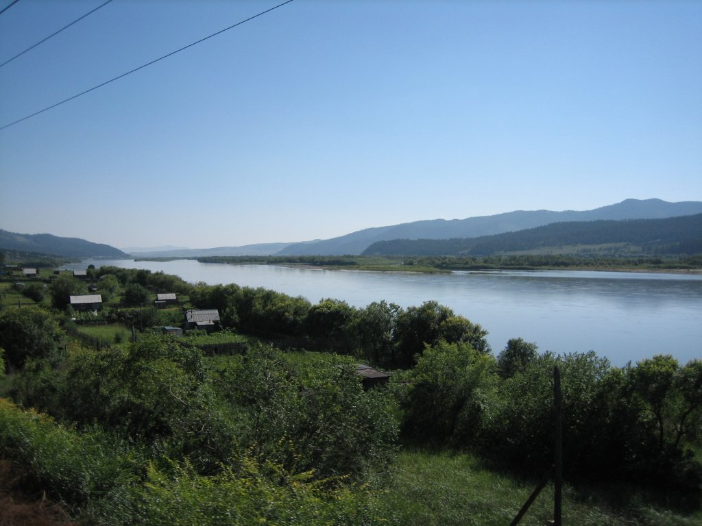 Selenga River near Ulan-Ude, Russia